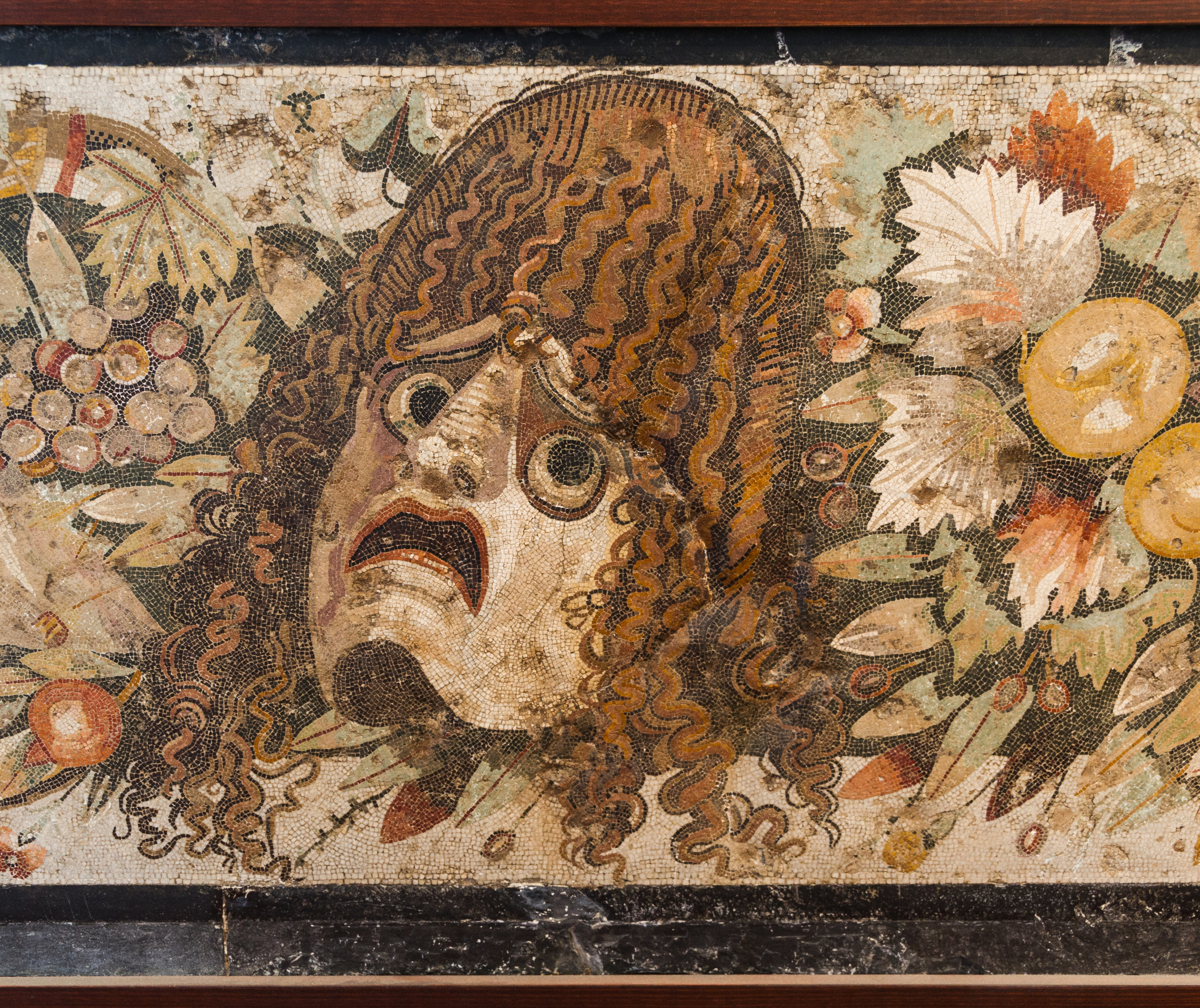 Tragic mask, detail of an ancient roman mosaic. Pompeii, Italy.